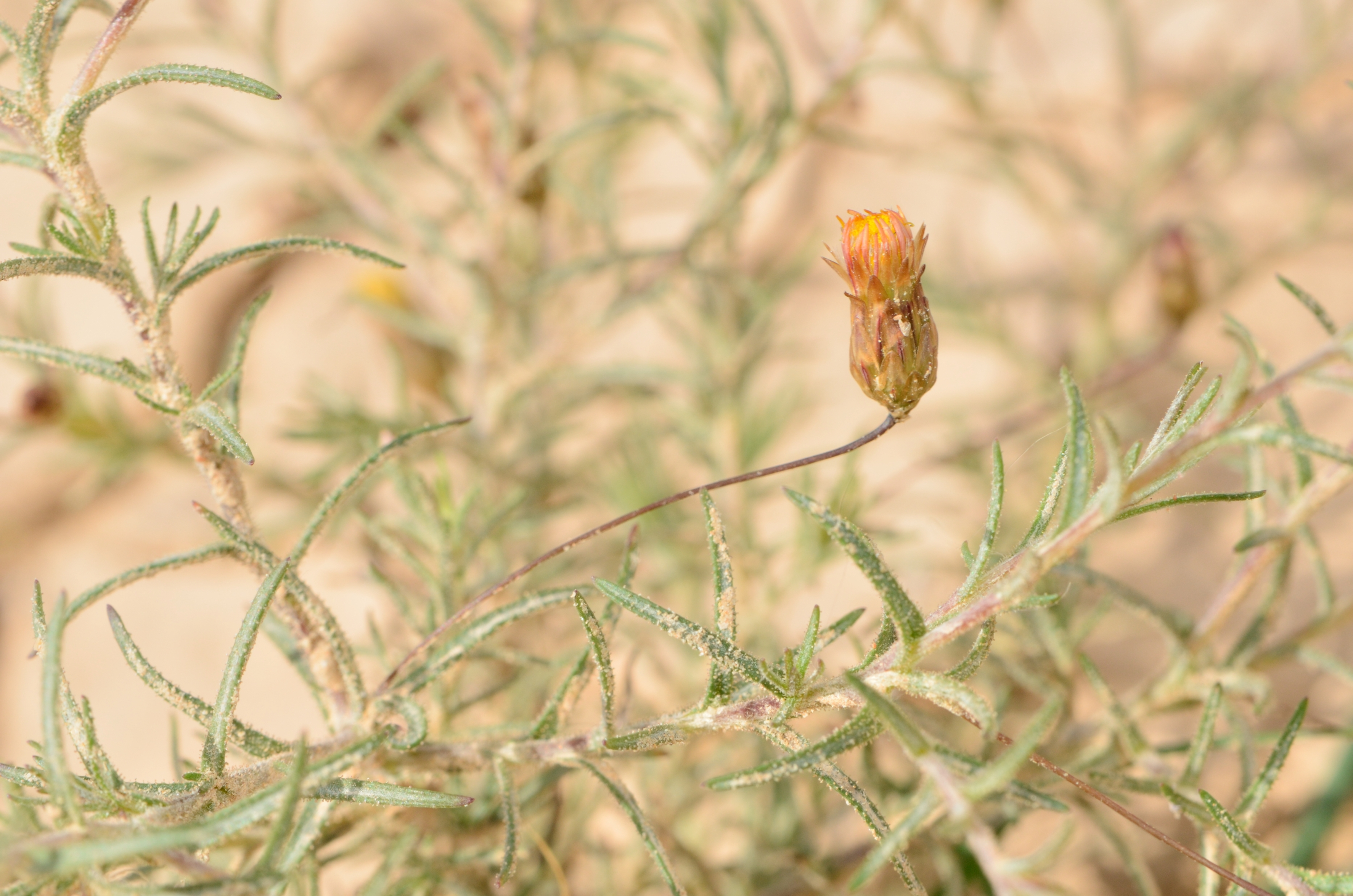 Leysera leyseroides (Desf.) Maire, Na'atzutz Valley, Negev, Israel, February 8, 2013.